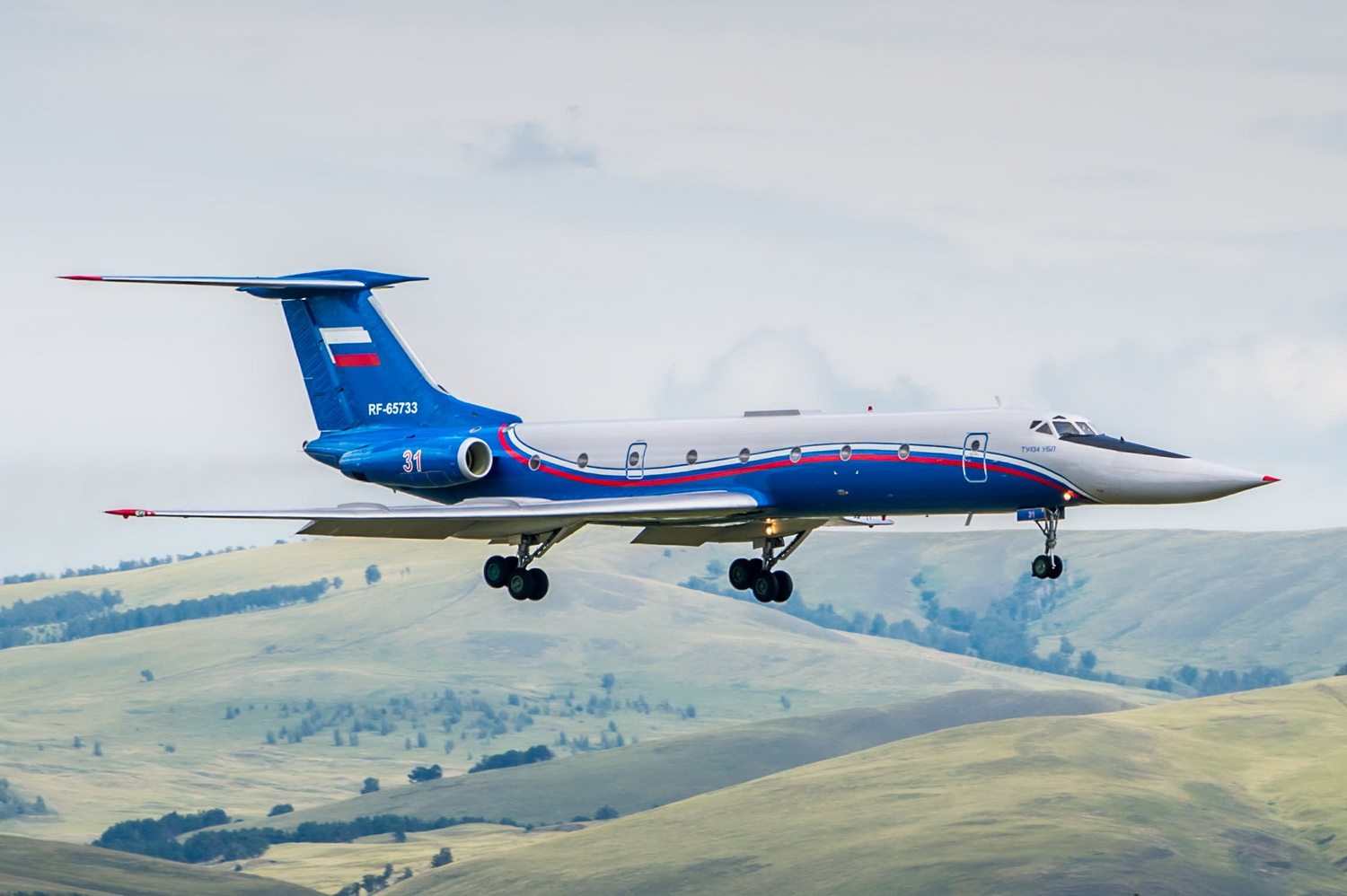 Russian Air Force Tupolev Tu-134UBL (RF-65733) on final approach at Abakan Airport